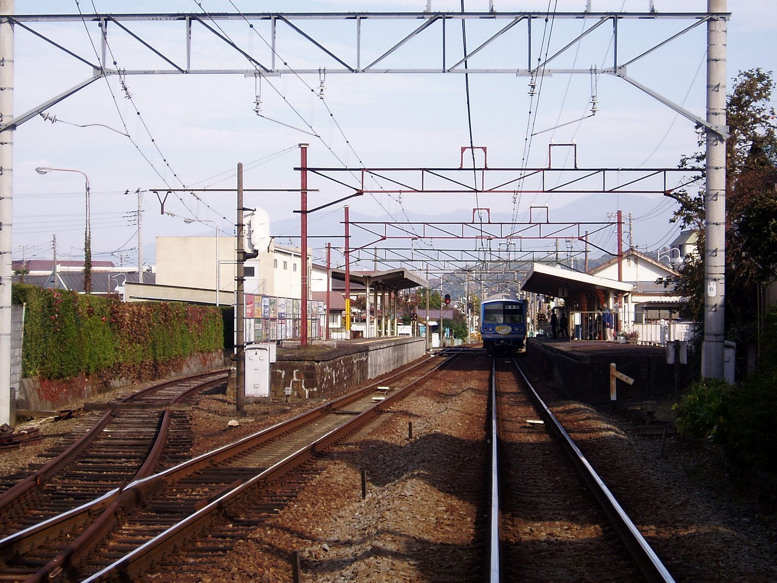 Isuhakone Railway Company, Takyo Sta. 2007.11.26 Photo by Cassiopeia_sweet.